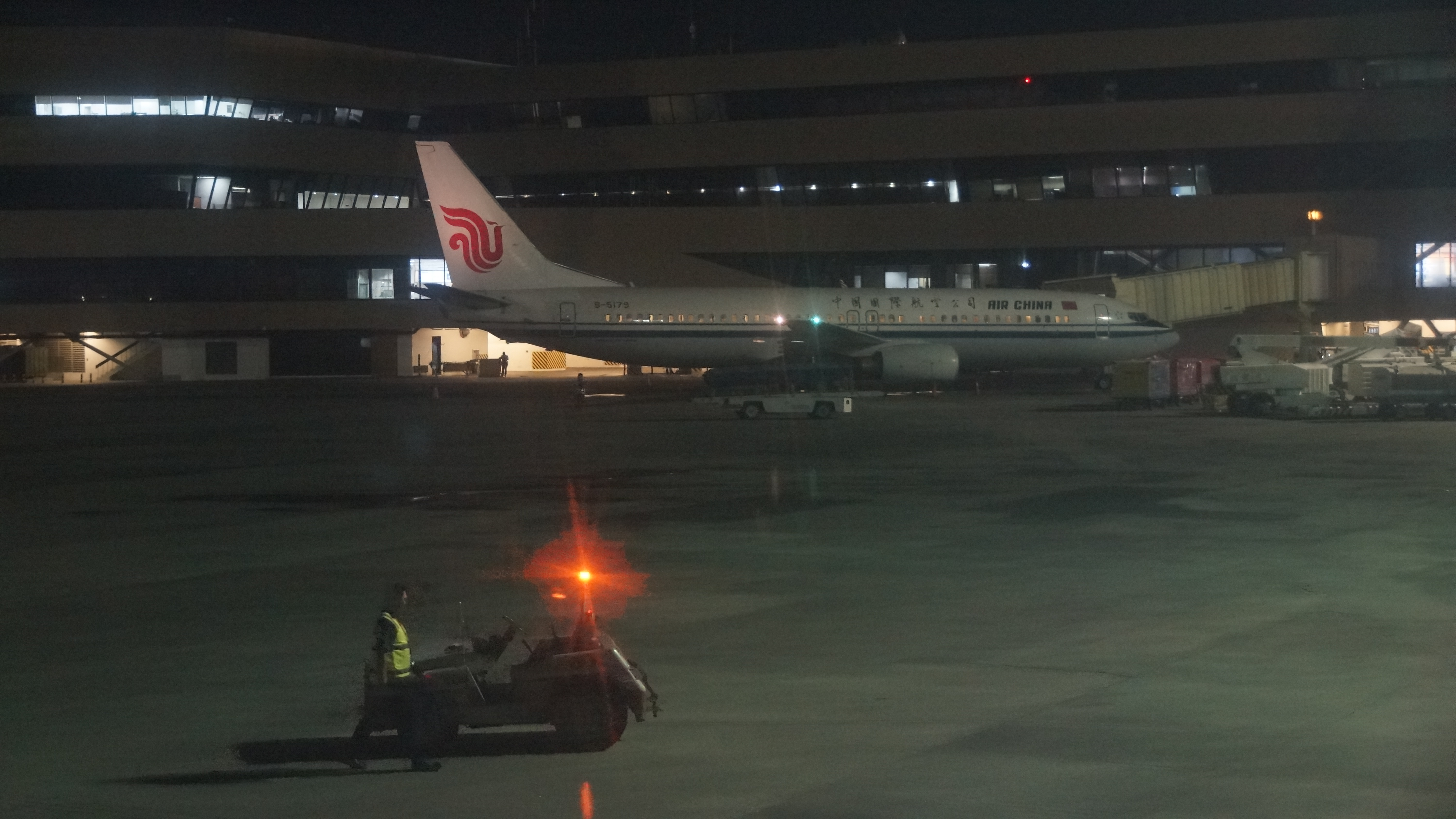 Air China parked at MNL NAIA 1 at midnight before an early morning flight